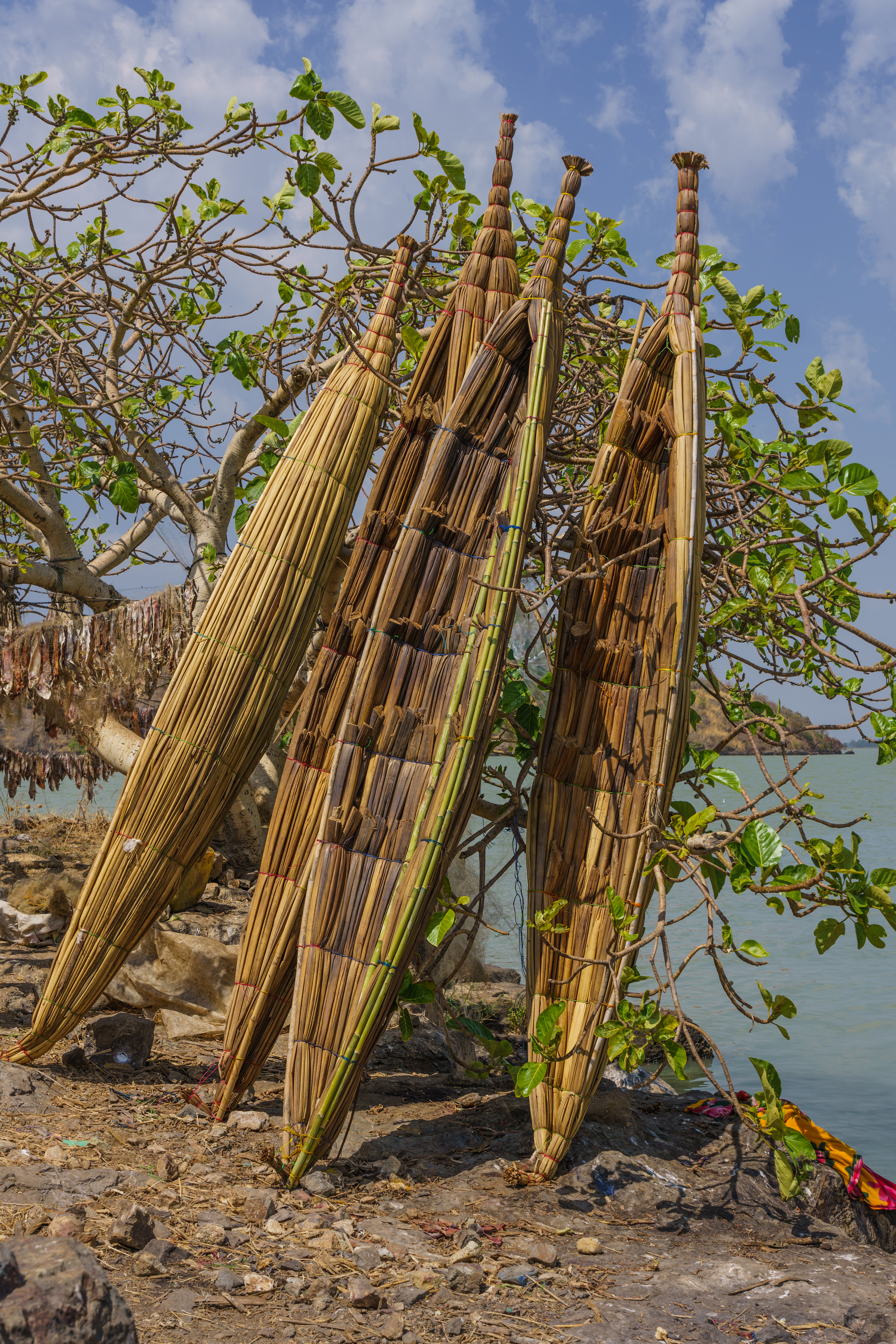 Lake Tana at Gorgora near Gondar, Ethiopia